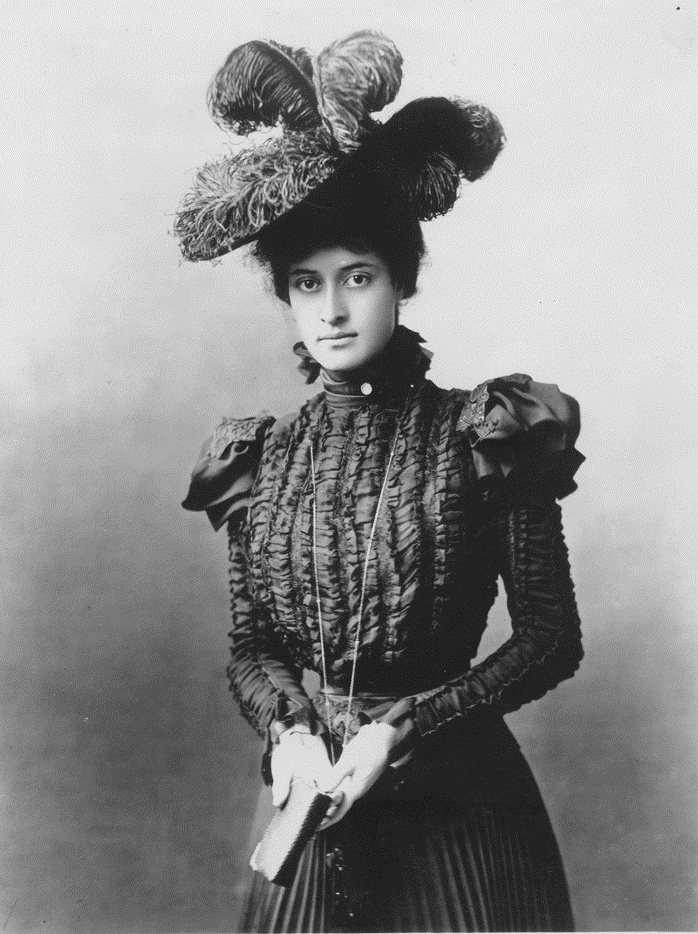 Kaiulani in San Francisco, ca. 1897.